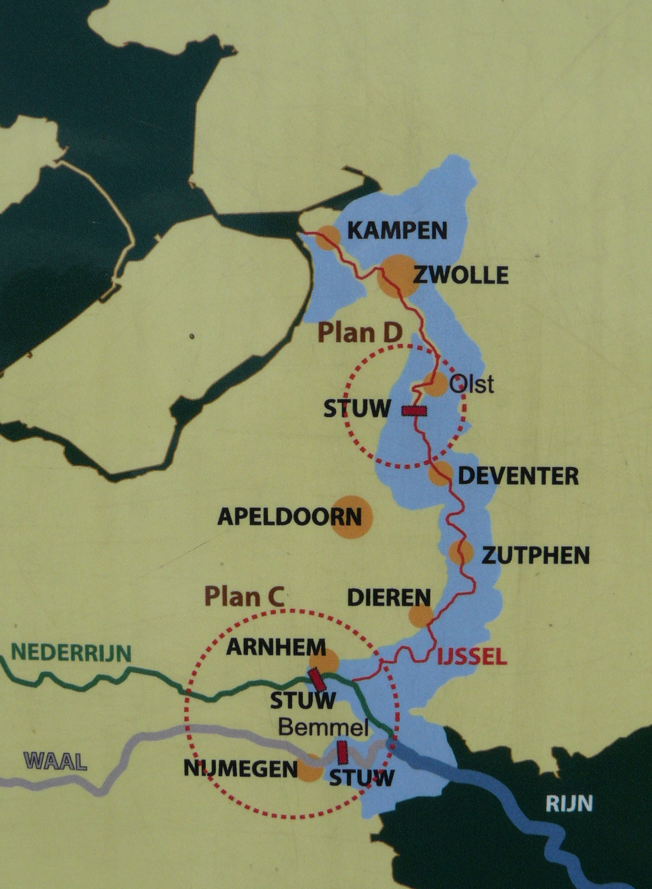 Map of the IJssel Line with the three movable floating dams and in light blue the area that could be inundated.